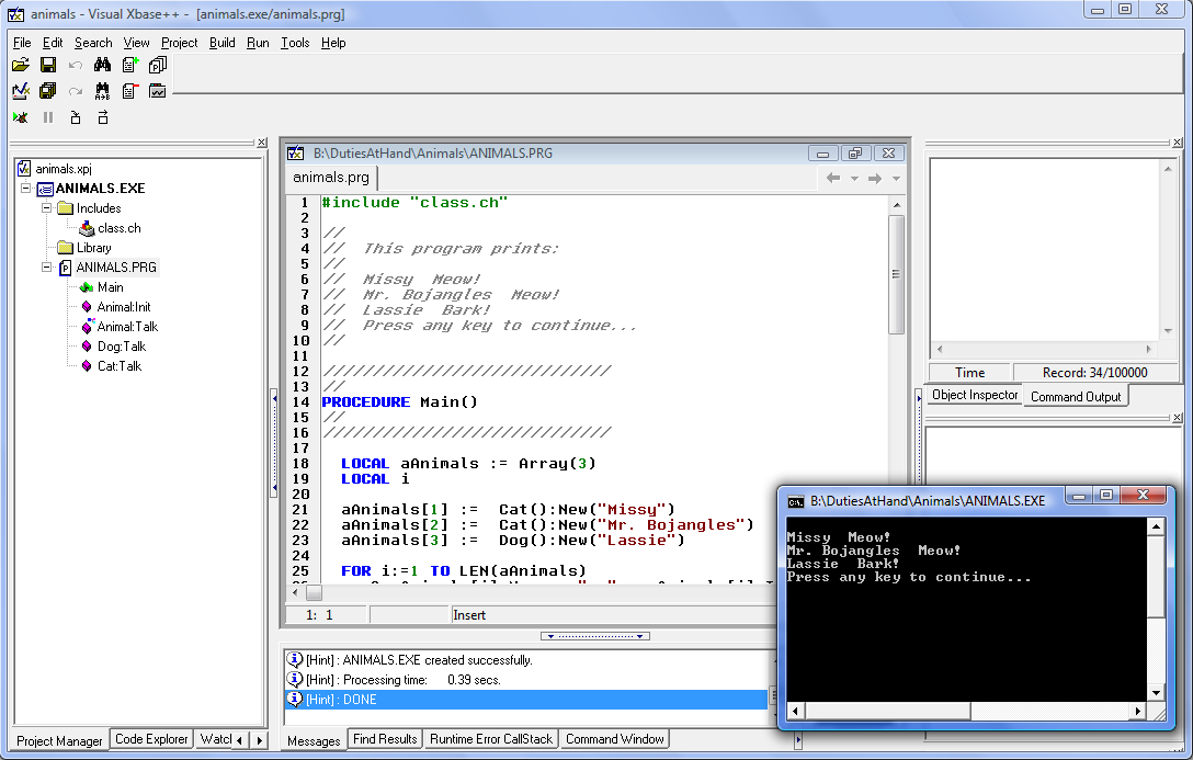 Visual Xbase++ 2.0 with sample project Animals